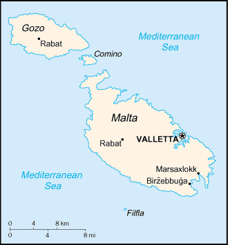 Map of Malta showing island names and towns.